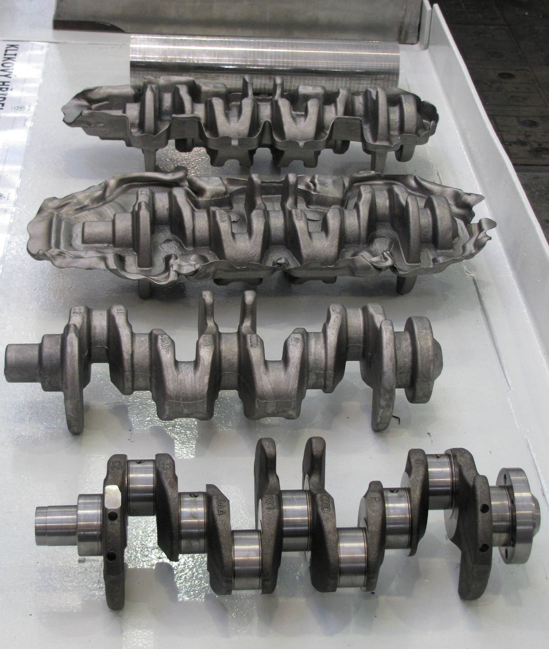 Crankshaft of a four-cylinder internal combustion engine - from the blank through forging and machining to the final product. Photo taken during a presentation by Škoda Auto in Mladá Boleslav.